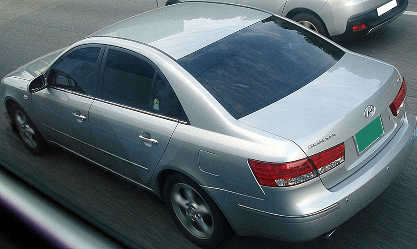 Hyundai Sonata